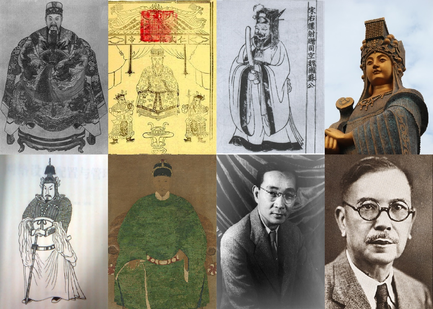 Various Hoklo People. From left to right of the upper section: Tan Goan-kong Baosheng Dadi Su Song Mazu From left to right of the lower section: Yu Dayou Koxinga Lin Yutang Tan Kah Kee